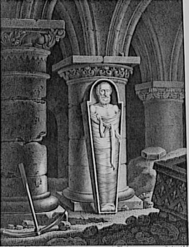 The coffin of Henri IV in Saint-Denis. Opened in 1793